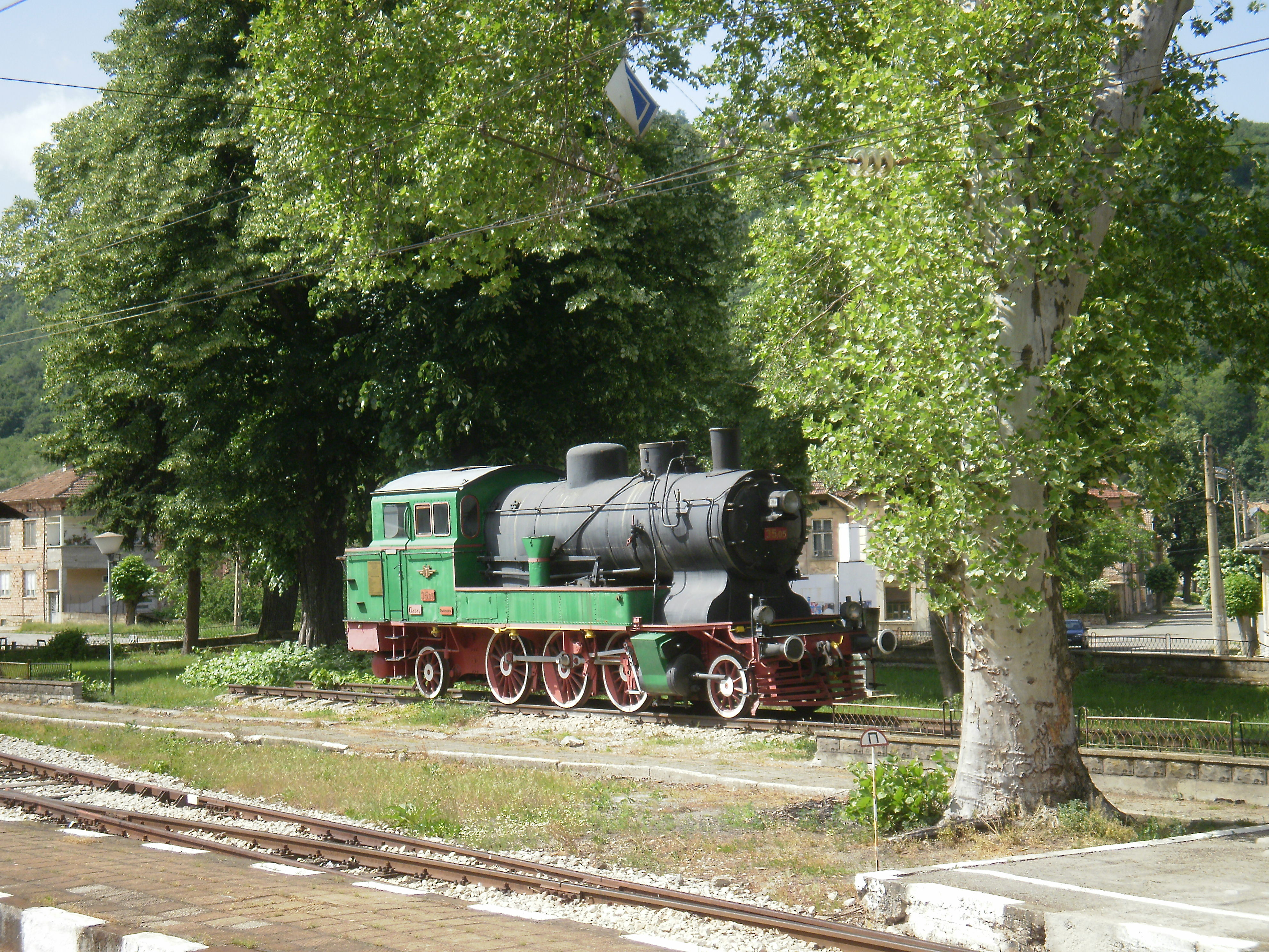 Tsareva livada Railway Station, Bulgaria